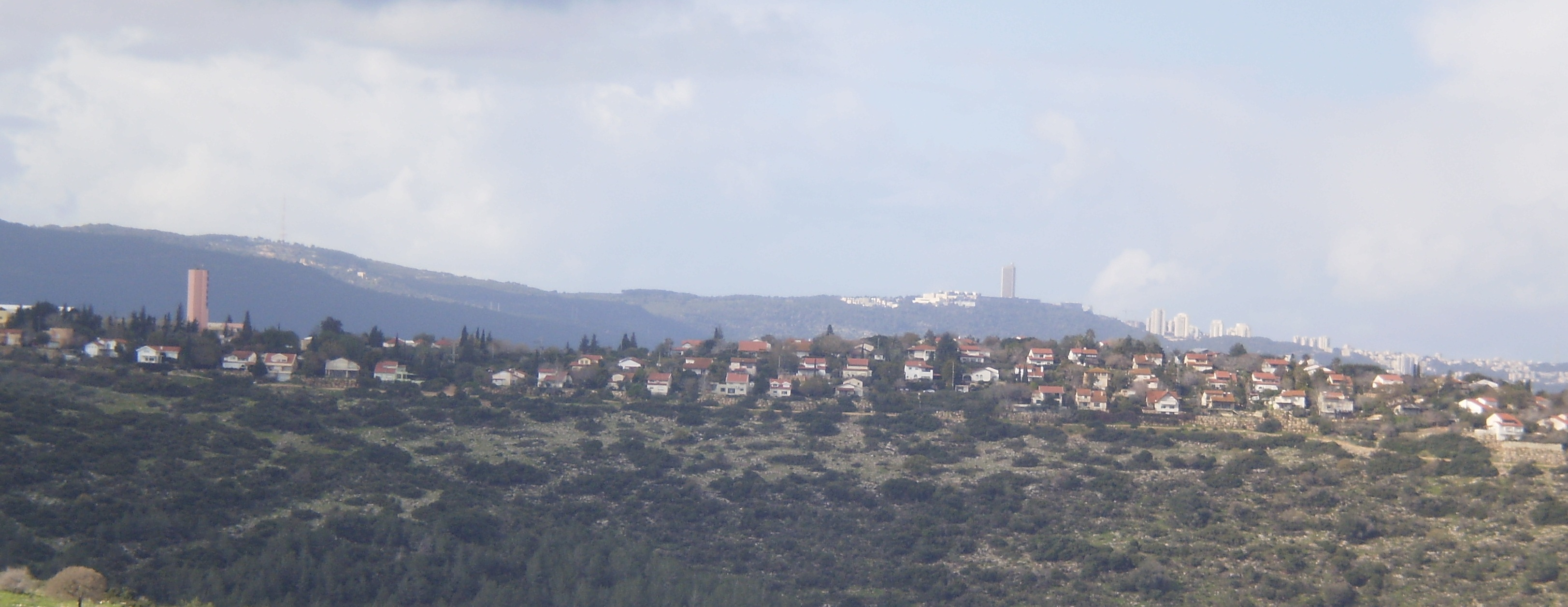 Nofit, viewed from Harduf